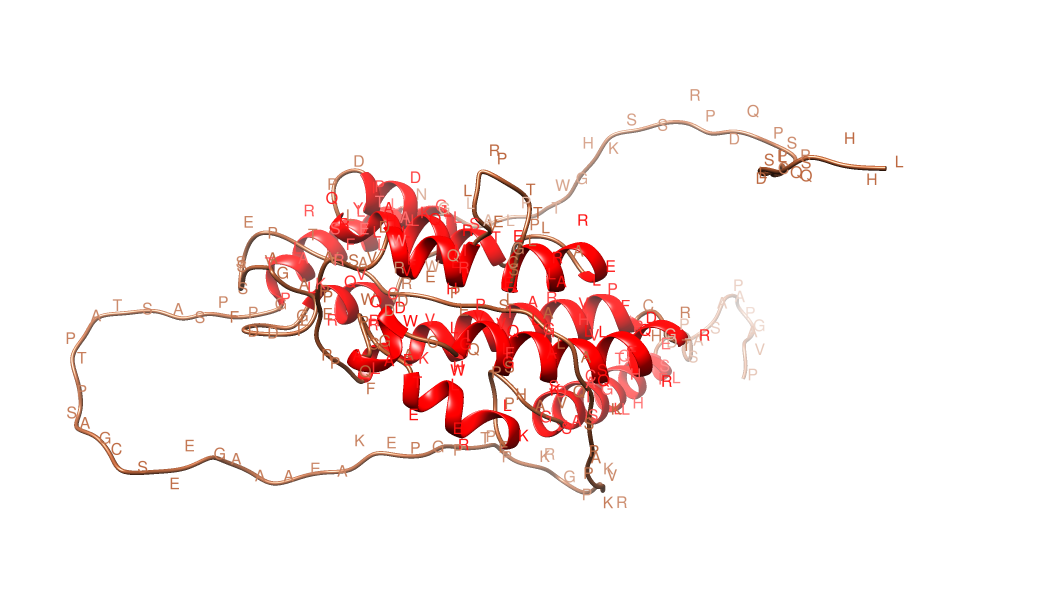 C15orf39